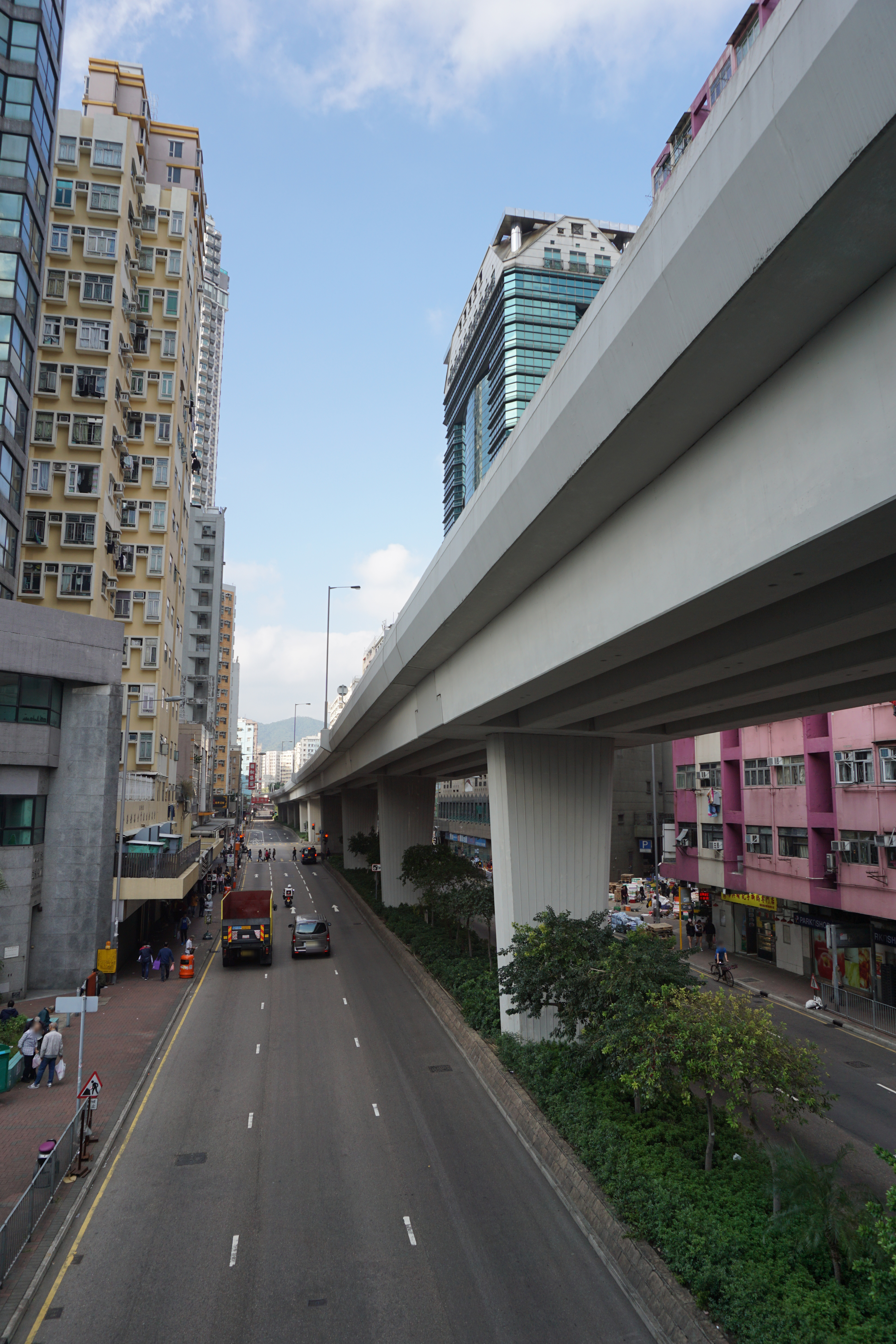 Tong Mi Road in Mong Kok, Hong Kong.